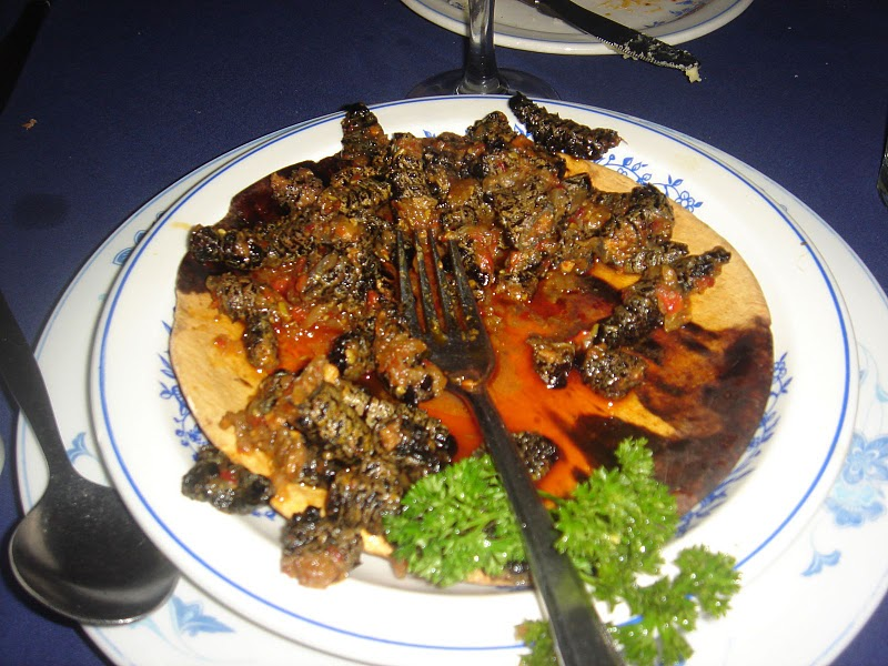 they are simply worms This is an image of food from South Africa